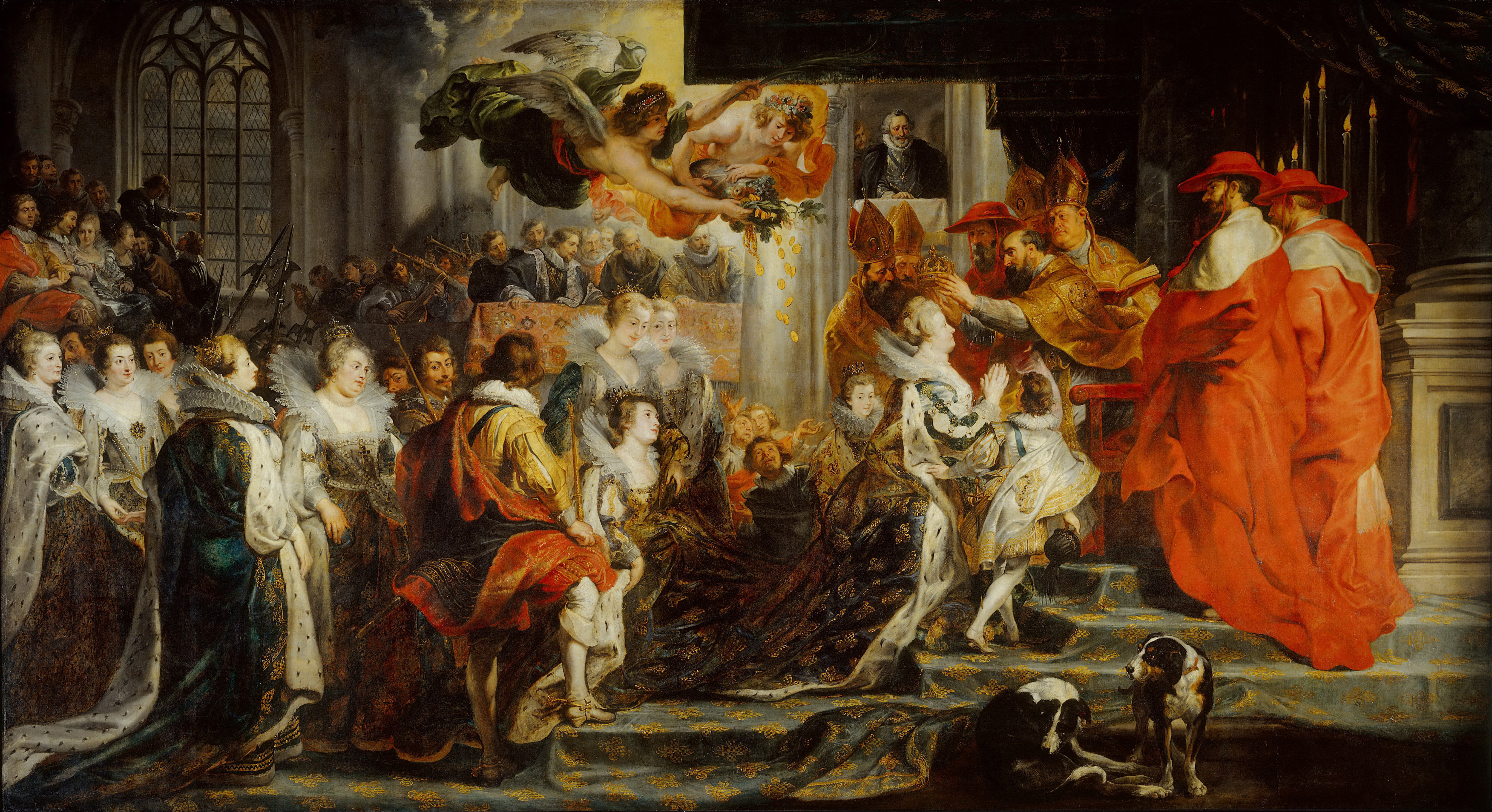 Rubens Pieter Paul Coronation Of Marie De Medici To Strengthen Authority Regent louvre